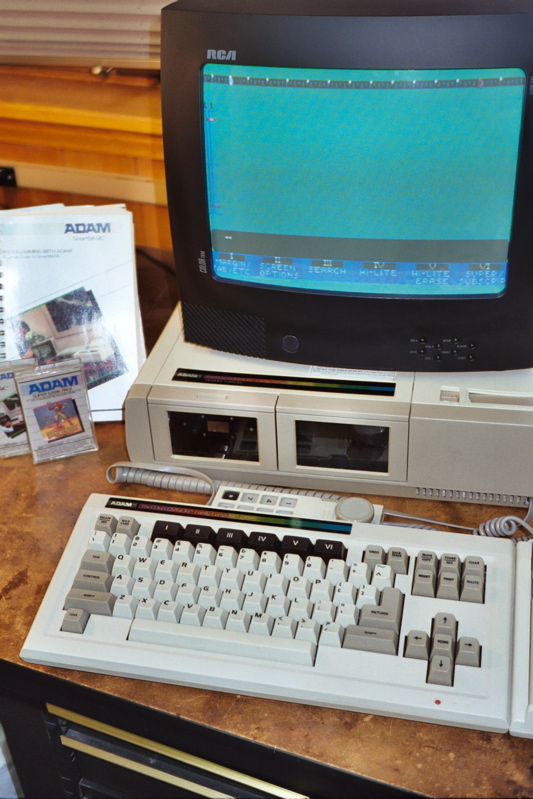 Coleco ADAM Detail